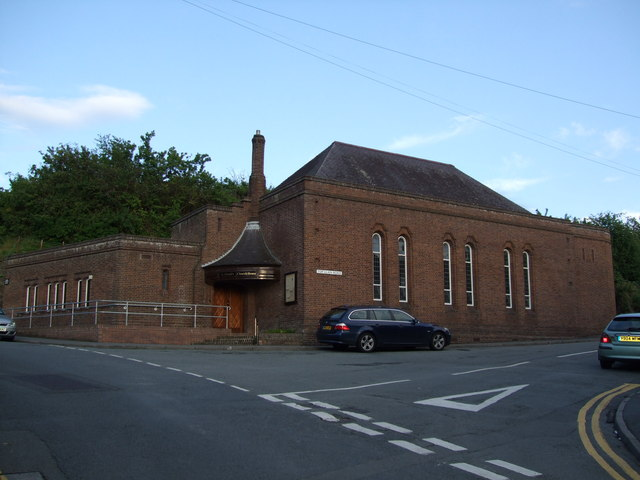 Church House, Church Street, Glan Conwy. A meeting house in Glan Conwy.